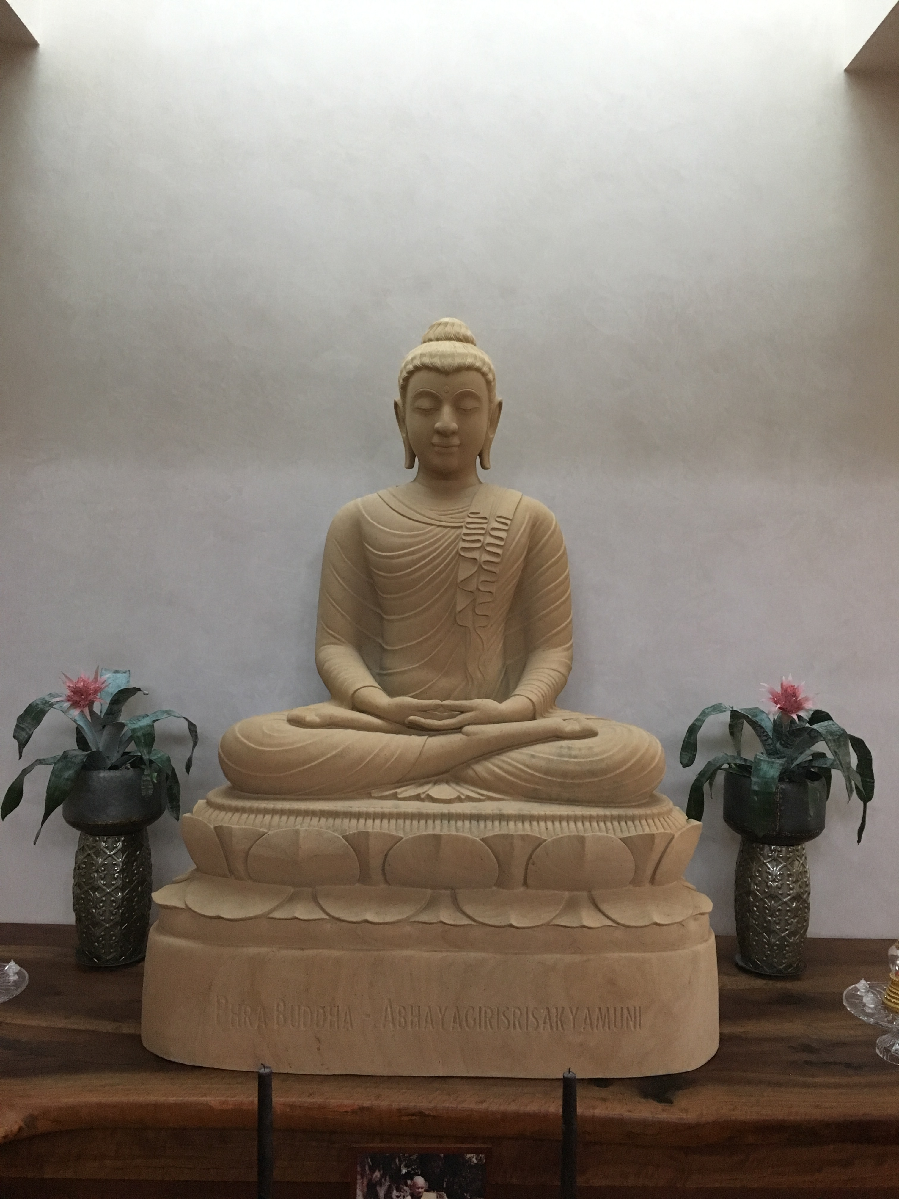 Buddharupa at Abhayagiri Buddhist Monastery, California